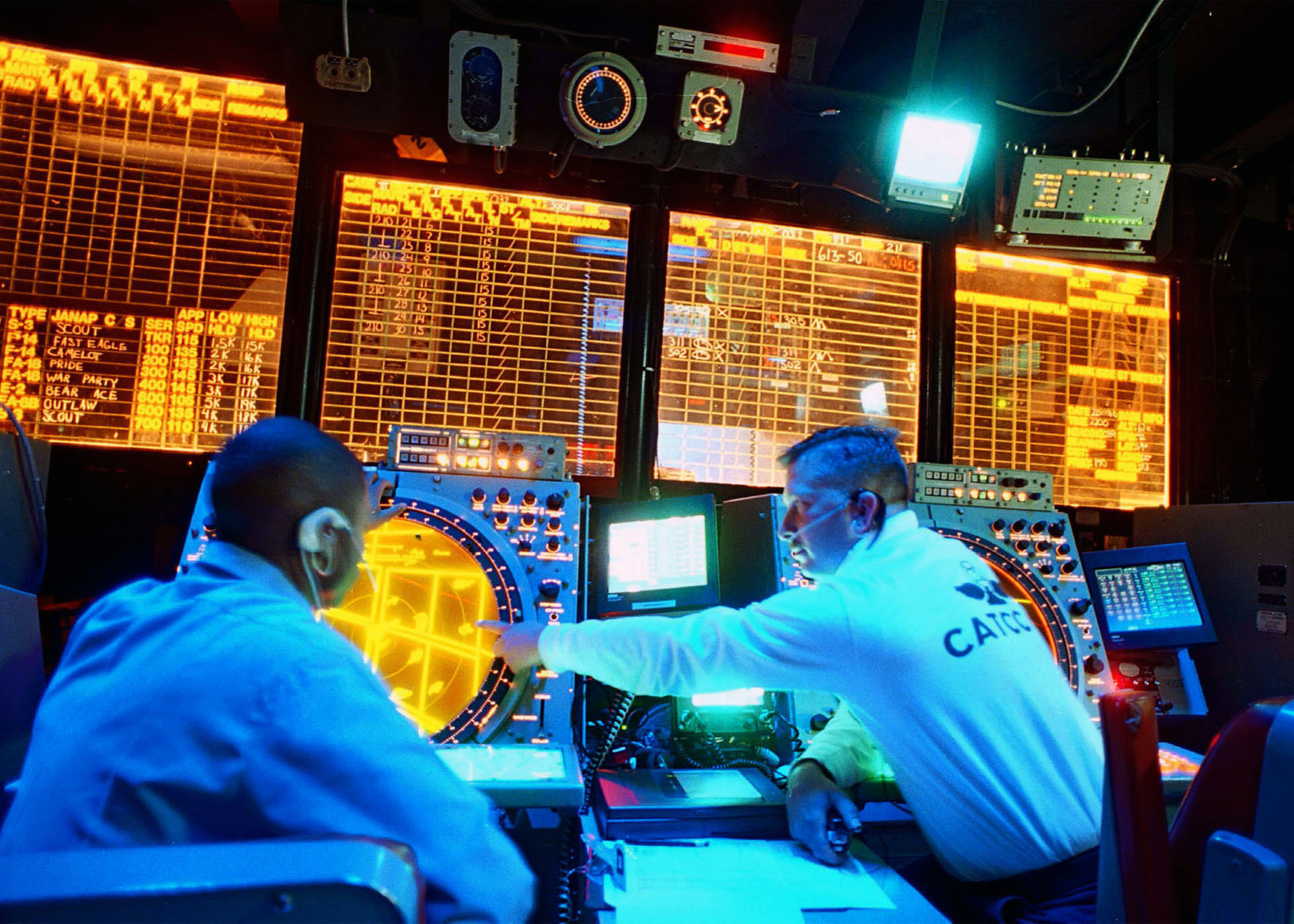 Air Traffic Controlman Third Class (AC3) Jemal Wiley from Catskill, New York and AC2 Bruce Bivins from Reno, Nevada, in the Carrier Air Traffic Control Center (CATCC) aboard USS ENTERPRISE (CVN 65).